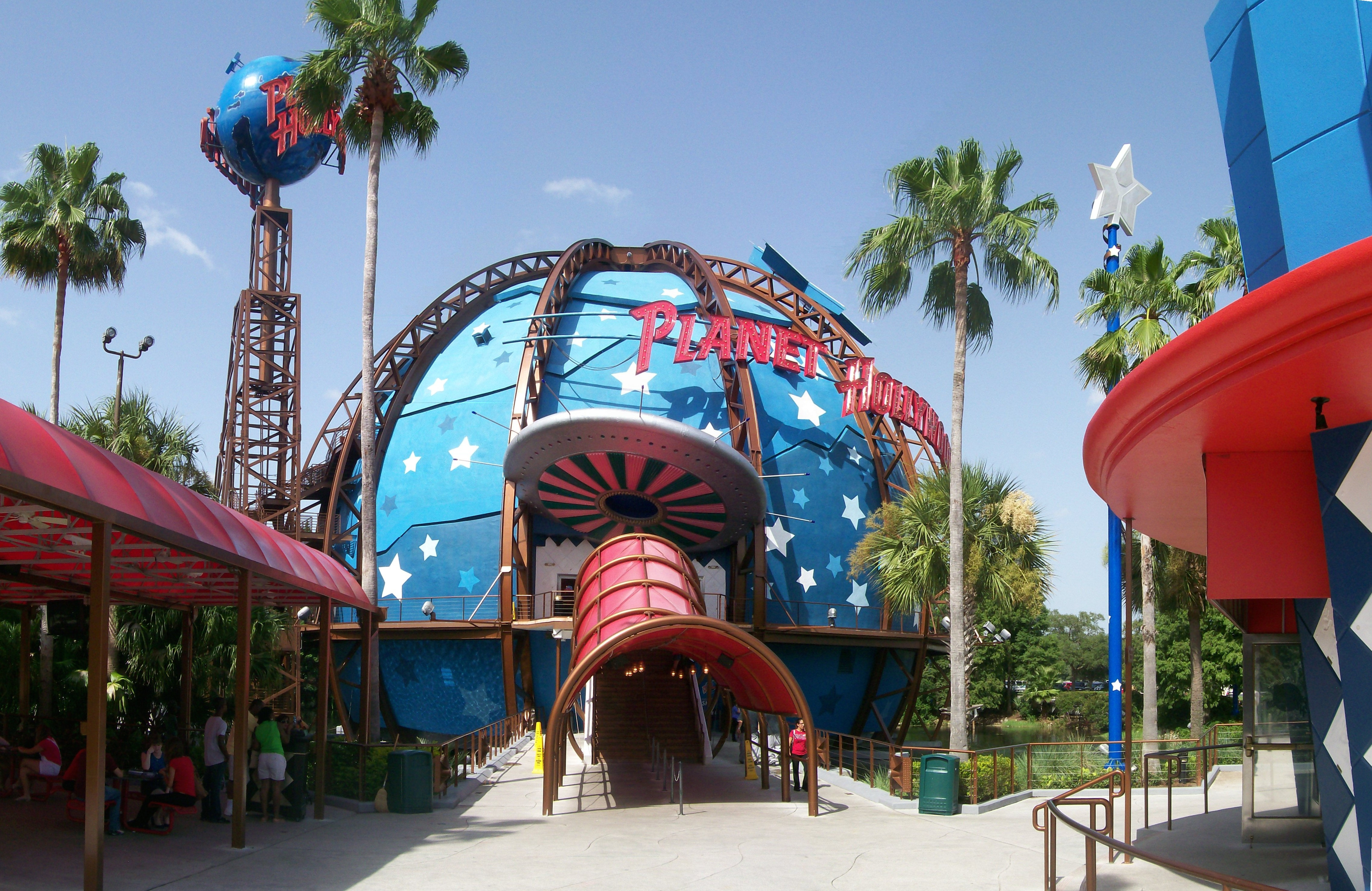 Planet Hollywood at Downtown Disney in Florida